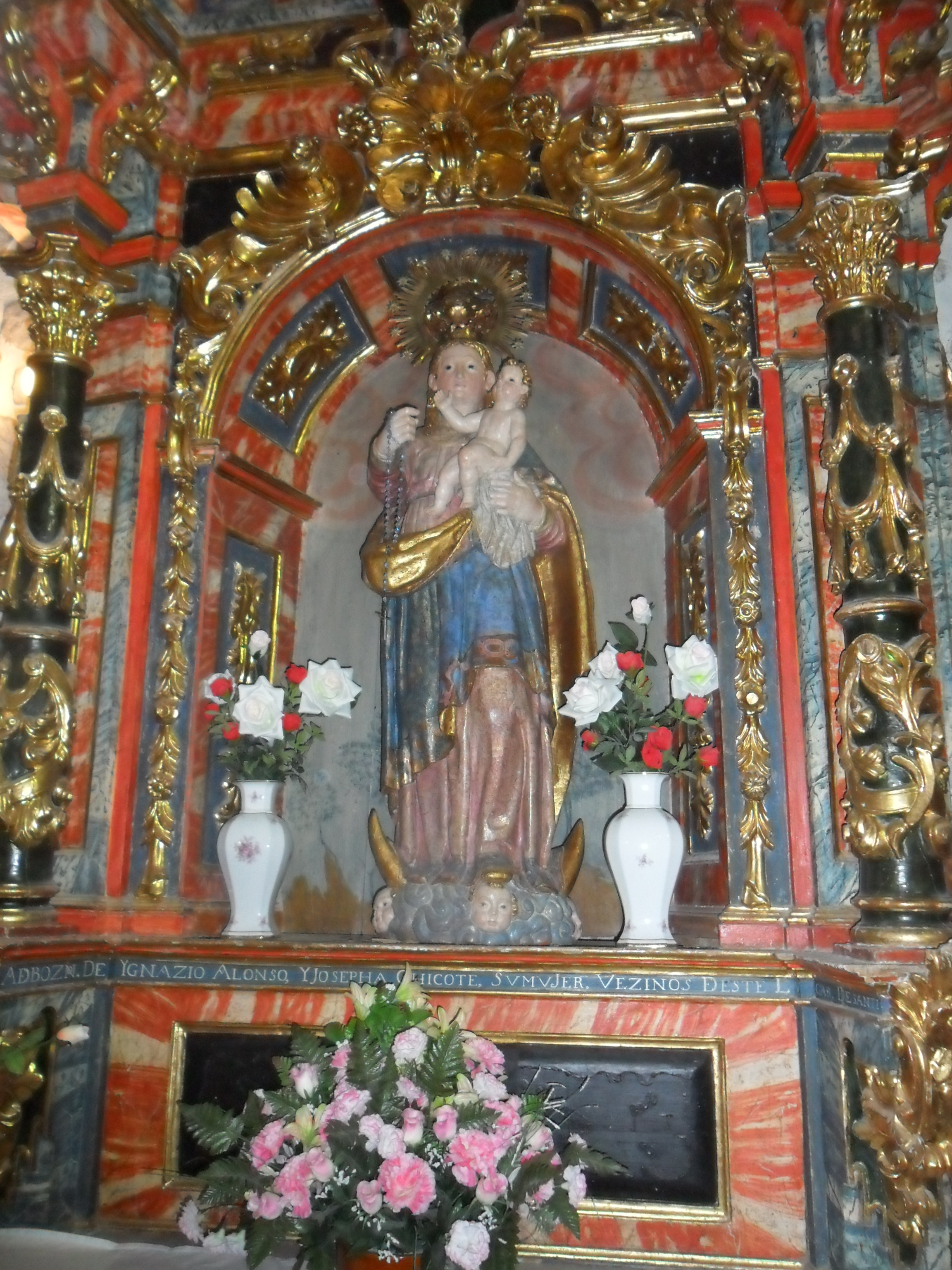 Baroque Altarpiece (1757). Santibáñez de Valcorba, Valladolid.Spain